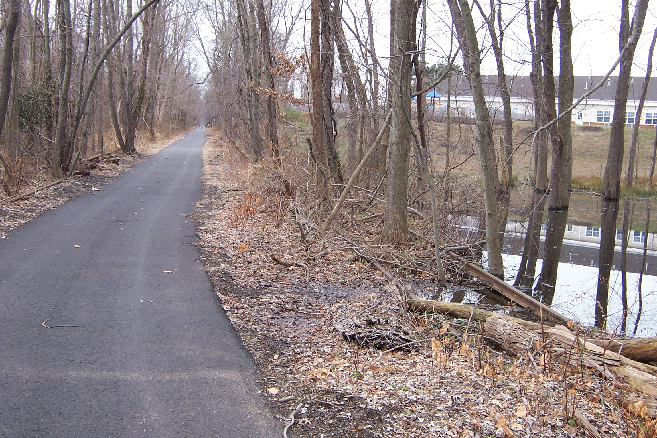 Henry Hudson Trail, southernmost segment in Marlboro, just south of Vanderburg Road.